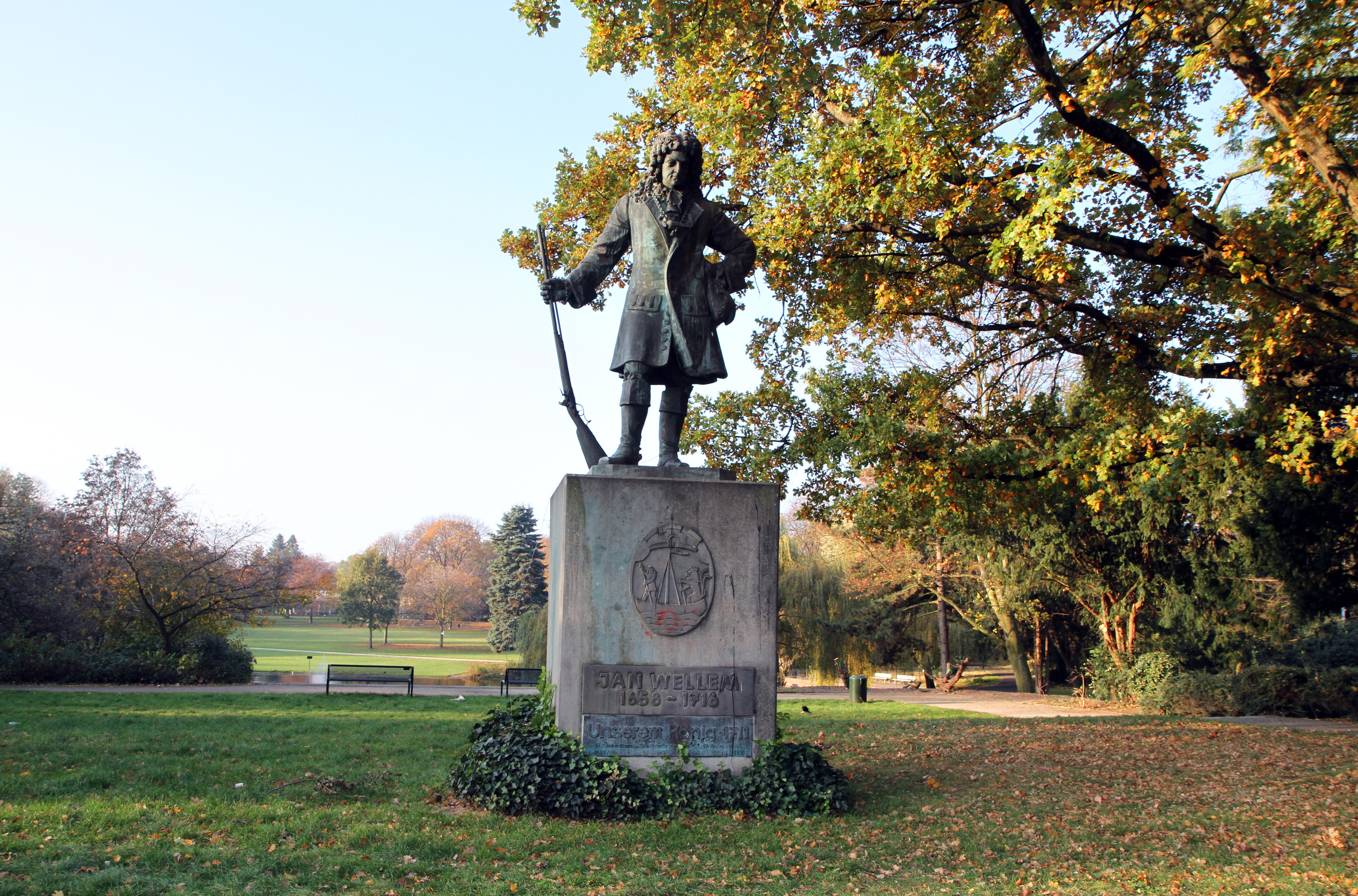 Cologne, monument "Jan-Wellem"